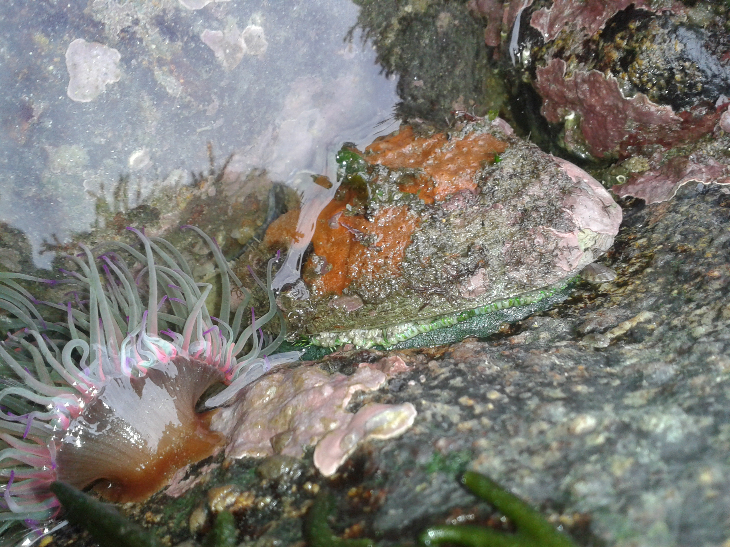 Abalone with a live sponge in its shell and a Green Snakelocks anemone during very low tide in January